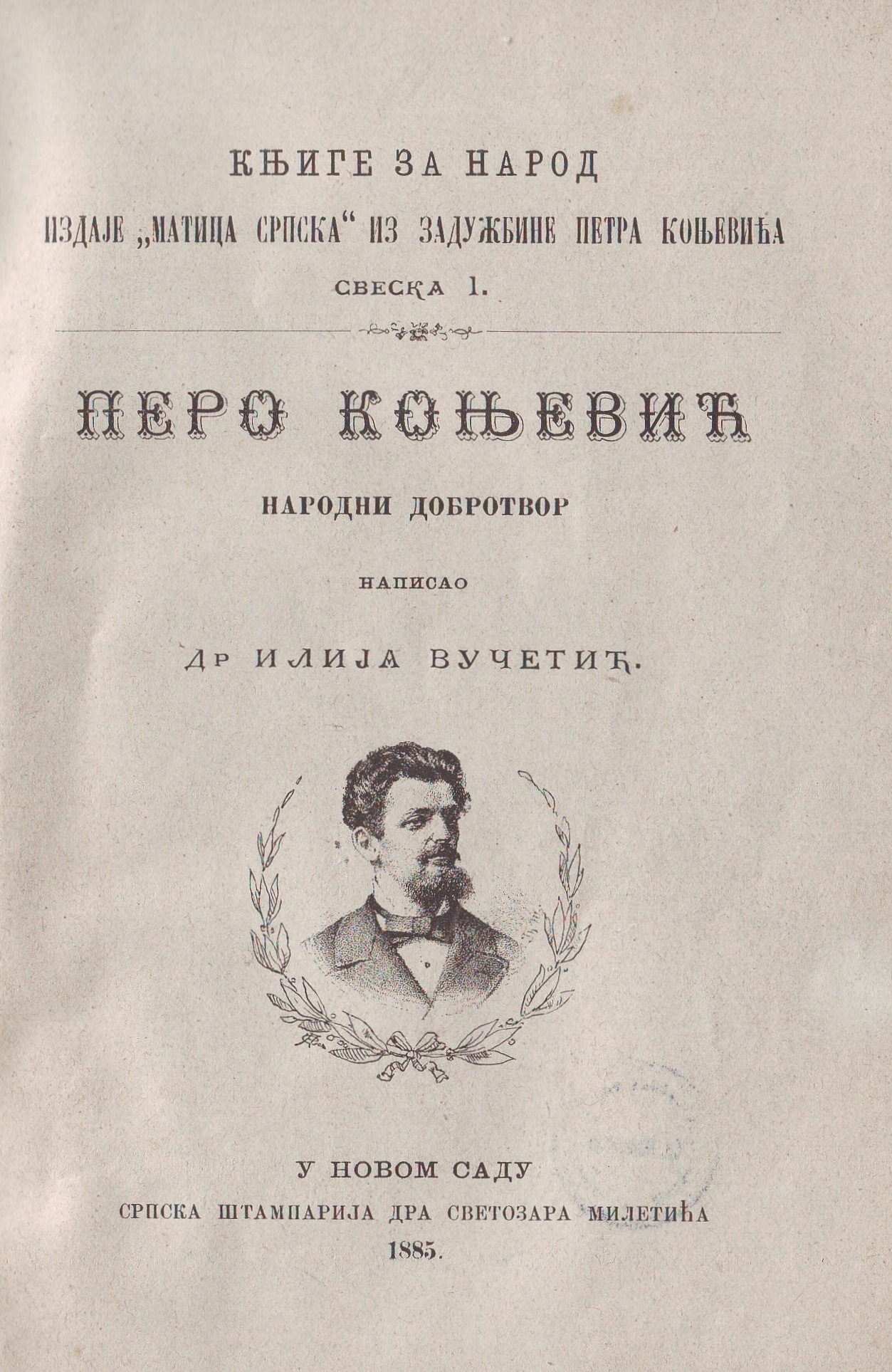 Cover of the first book of the Matica srpska edition Knjige za narod by Ilija Vučetić titled Pero Konjević, narodni dobrotvor (1885). Srpski (latinica): Naslovna strana prve knjige iz edicije Knjige za narod Matice srpske autora Ilije Vučetića - Pero Konjević, narodni dobrotvor (1885).